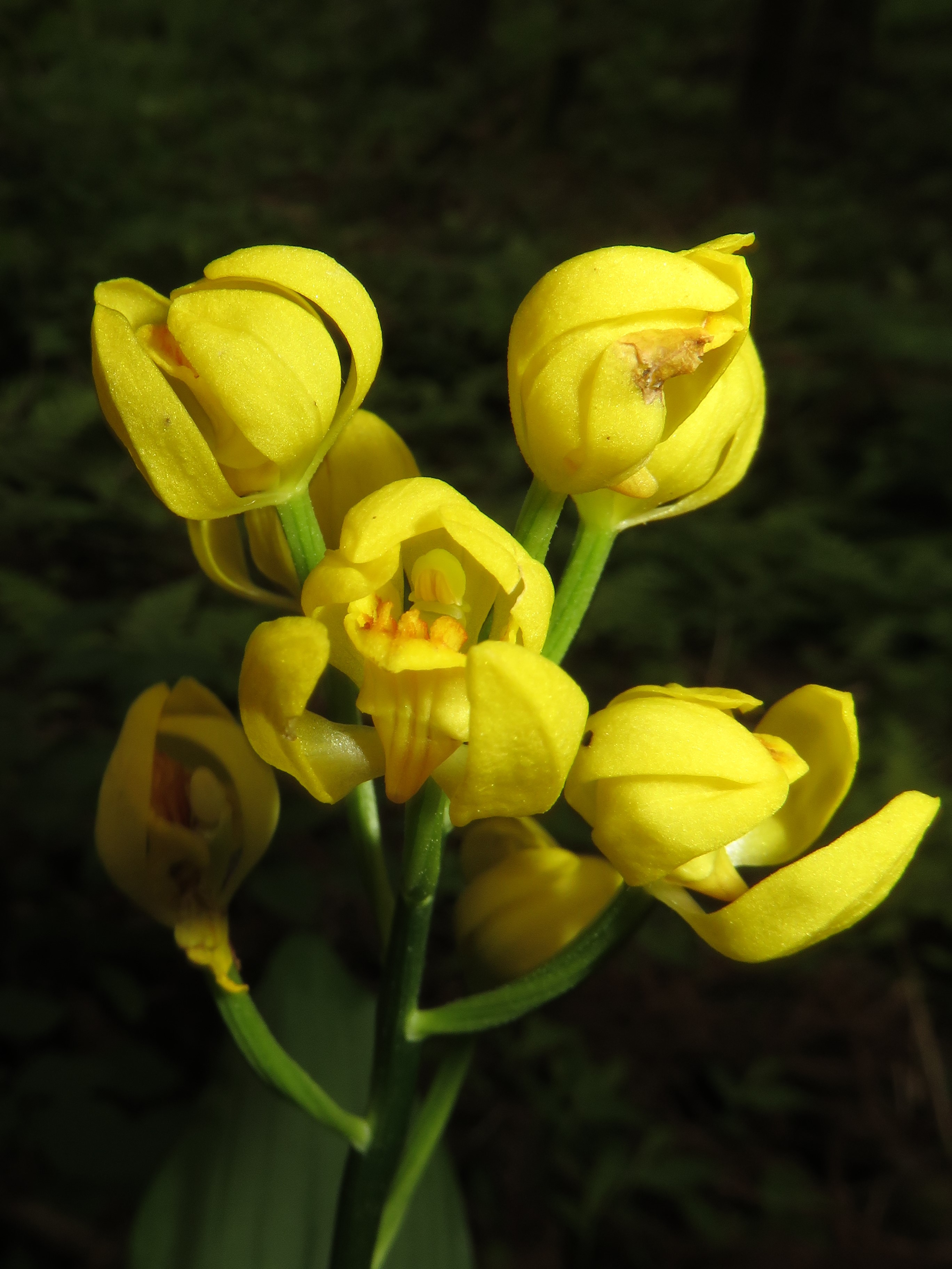 Cephalanthera falcata, Aizu area, Fkushima pref., Japan